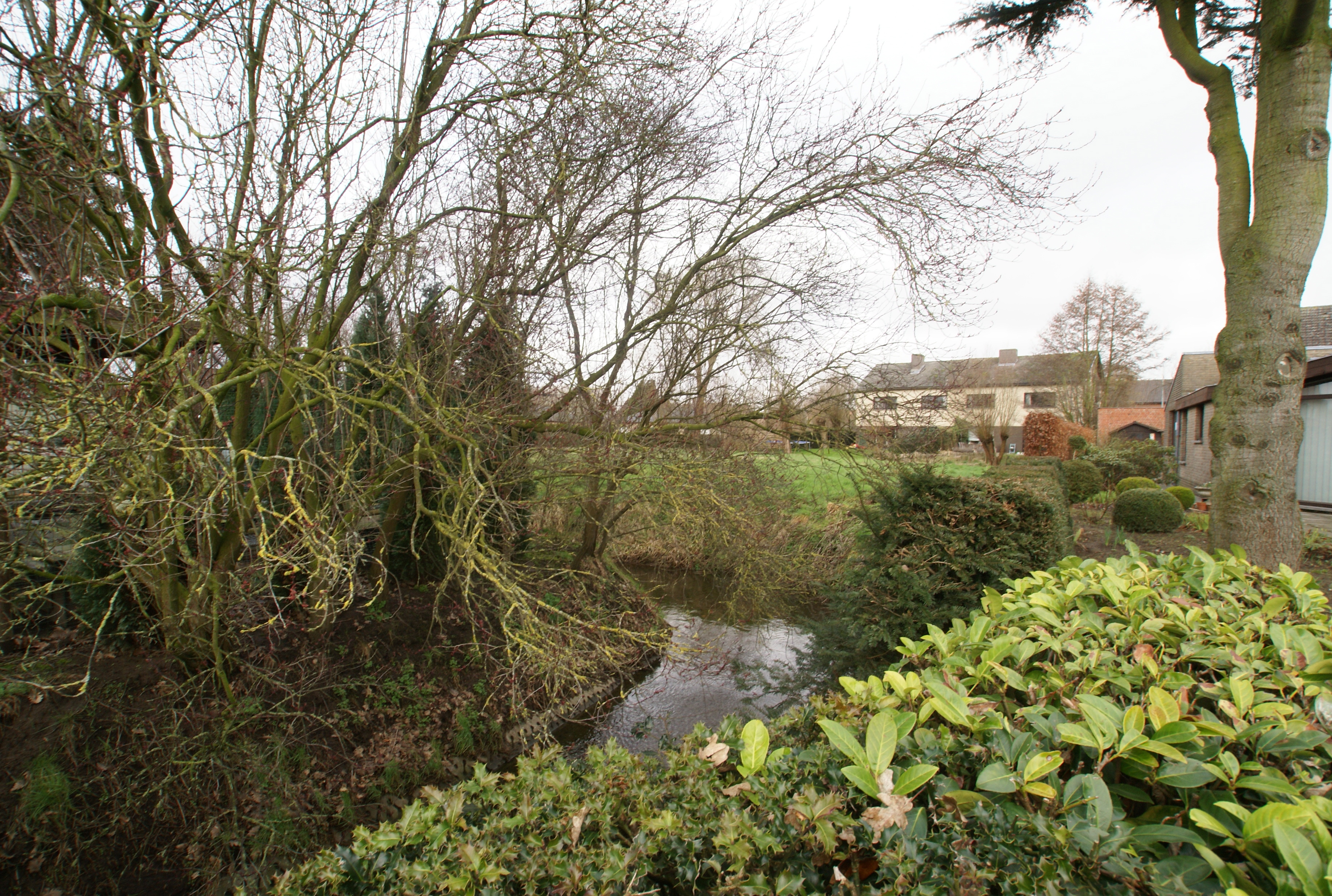 Brugge (Assebroek), Belgium: The river Meersbeek just before its confluence with the Sint-Trudoledeken